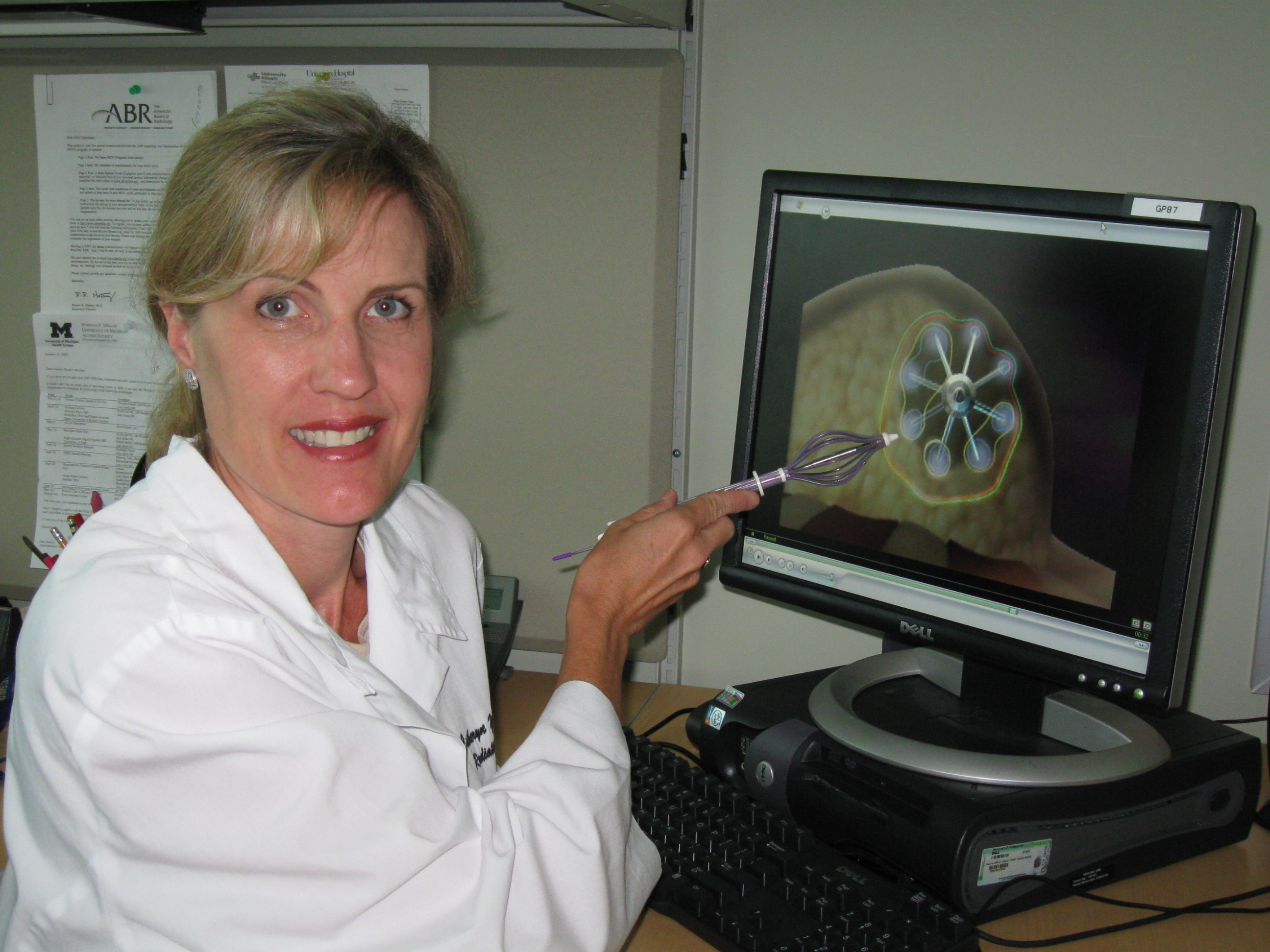 photo of SAVI breast brachytherapy device